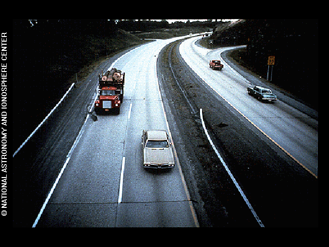 This image shows a highway with a few motorized vehicles on it. It is part of the image collection on the Voyager Golden Record that is being carried into deep space aboard the Voyager 1 and 2 spacecrafts. The low quality and resolution is due to the limitations of the format used on the record but it is what will be seen by an extraterrestrial intelligent life form if the probes ever gets discovered.